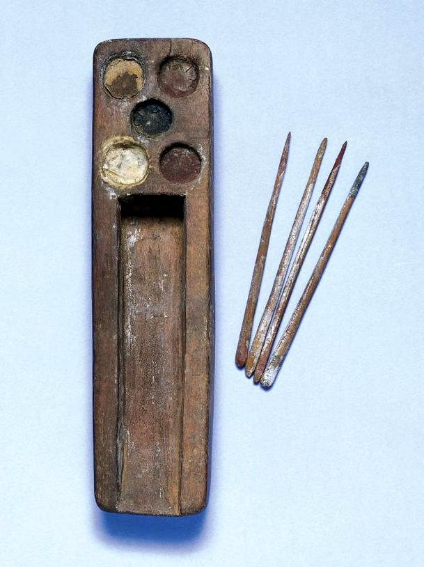 Wooden scribe's palette with five separate paints made from blends of minerals, gums and olis, the presence of modern turpentine in the red paint suggests some reuse in the early 20th century. The palette is rectangular shape, with rectilinear depression for writing pens. No lid. It has been suggested a possible fake, the five depressions are unusual, as Egyptians preferred symmetrical layouts. The lack of a lid, and any grooves for a lid is also unusual however scientific analysis has dated it c.1500-500 BC Scribes are generally buried with their writing palettes as a symbol of their profession. Usually contian several circular holes for ink and central recess for stylus-like reeds used as writing implements.